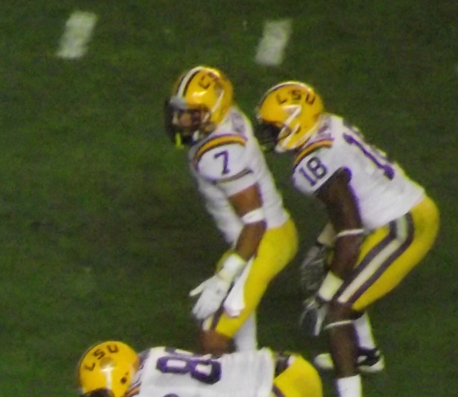 Alabama Crimson Tide line up on offense against the LSU Tigers at Bryant–Denny Stadium in Tuscaloosa, Alabama.